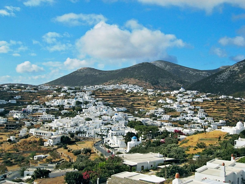 Atypically for the Greek islands, the villages of Artemonas and Apollonia on Sifnos sprawl widely over the hillsides.